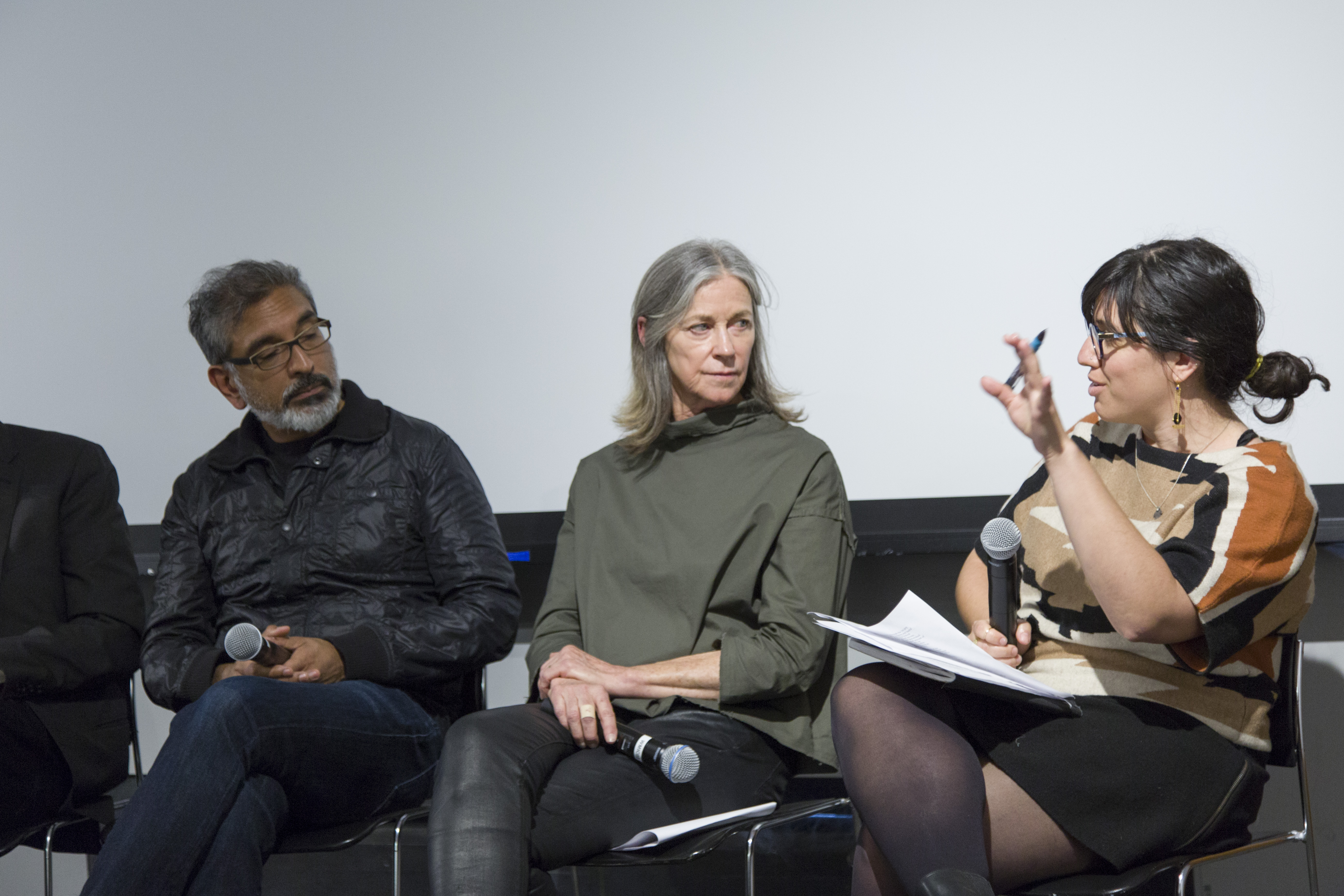 Vishaan Chakrabarti, Laurie Hawkinson, & Valerie Stahl in discussion at The First 100 Days, Day 64 at Columbia GSAPP